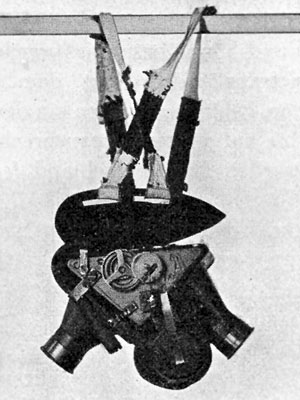 Julius Neubronner's patented Pigeon camera with two lenses, with cuirass and harness. Hanging.